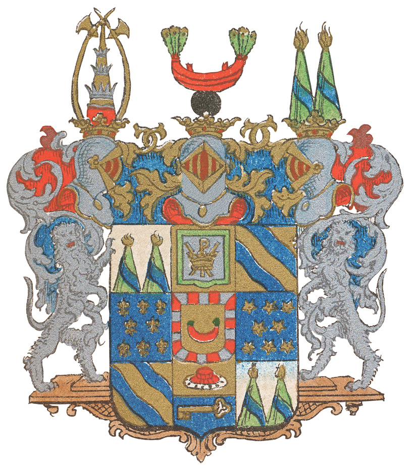 House of Bonde af Björnö